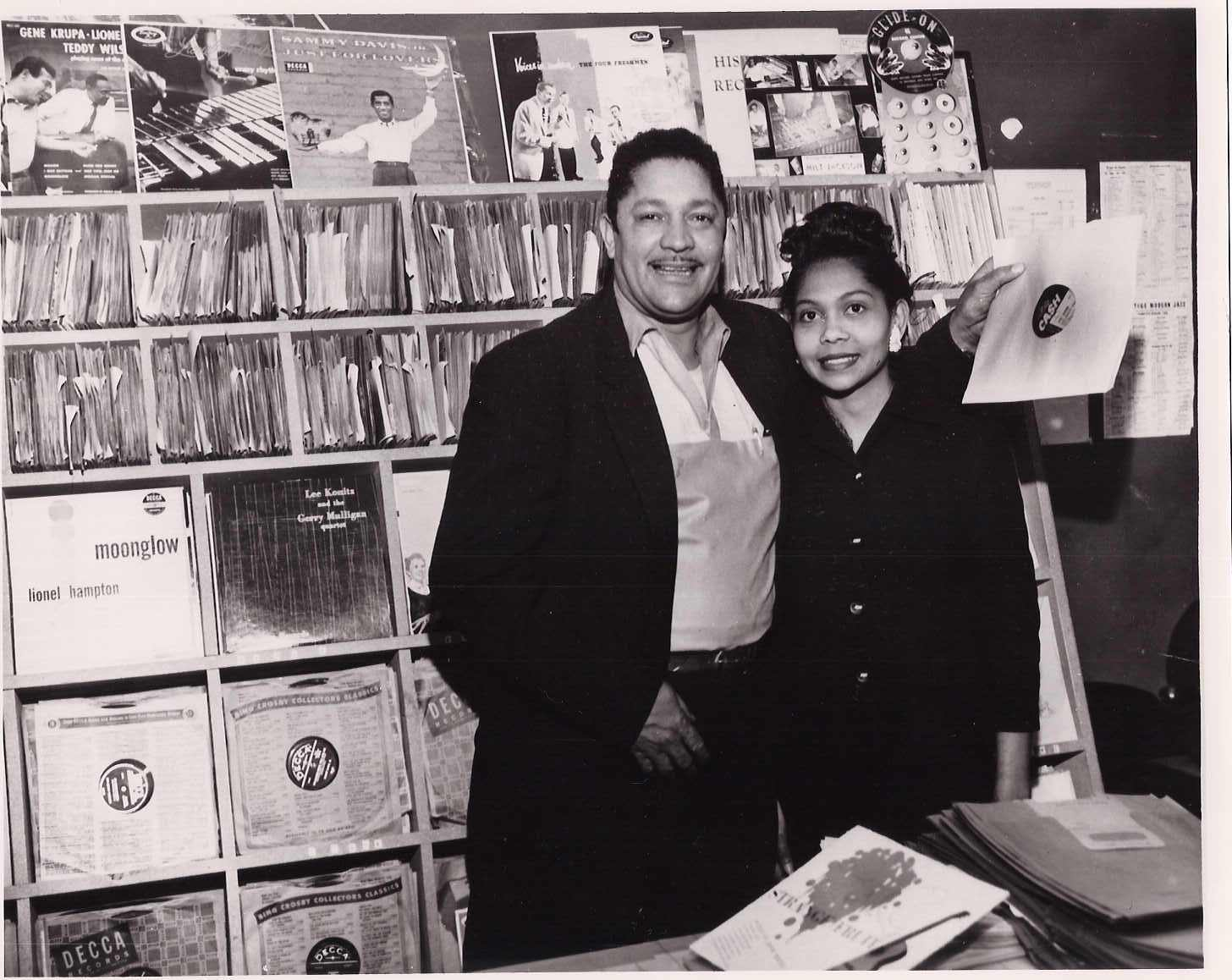 John Dolphin and his wife Ruth Dolphin at Dolphin's of Hollywood Record Shop in Los Angeles, CA